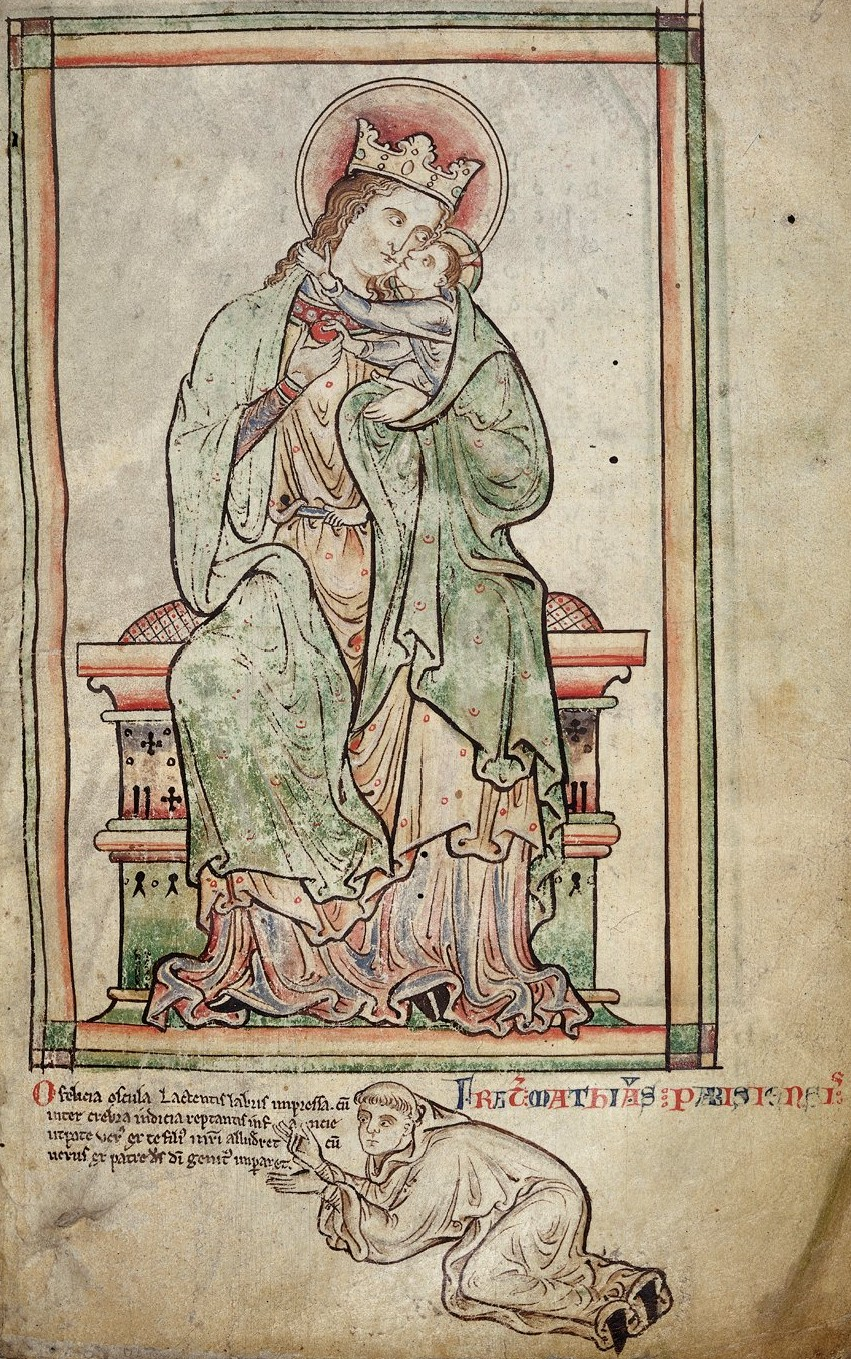 Matthew Paris, Chronica Majora BL Royal.C.vii f. 6r with Virgin and Child and self-portrait